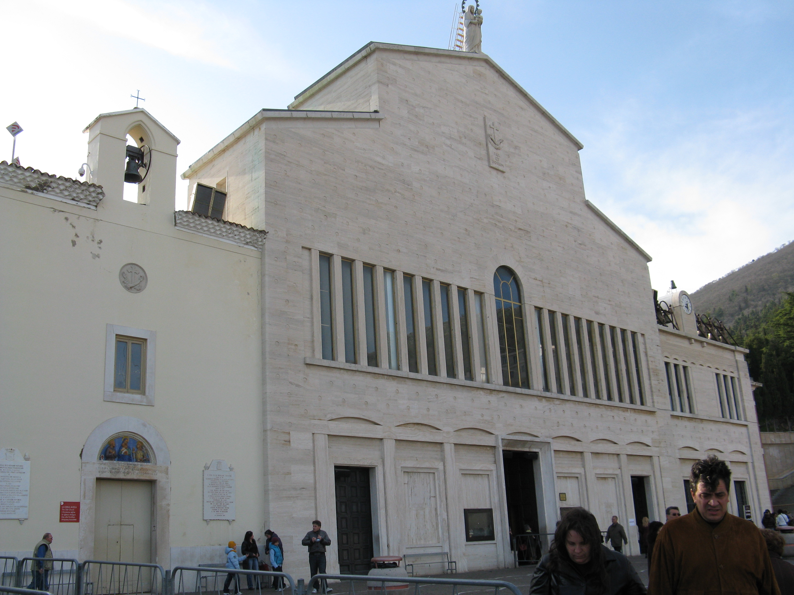 Santuario di S.Maria delle grazie in S.Giovanni Rotondo